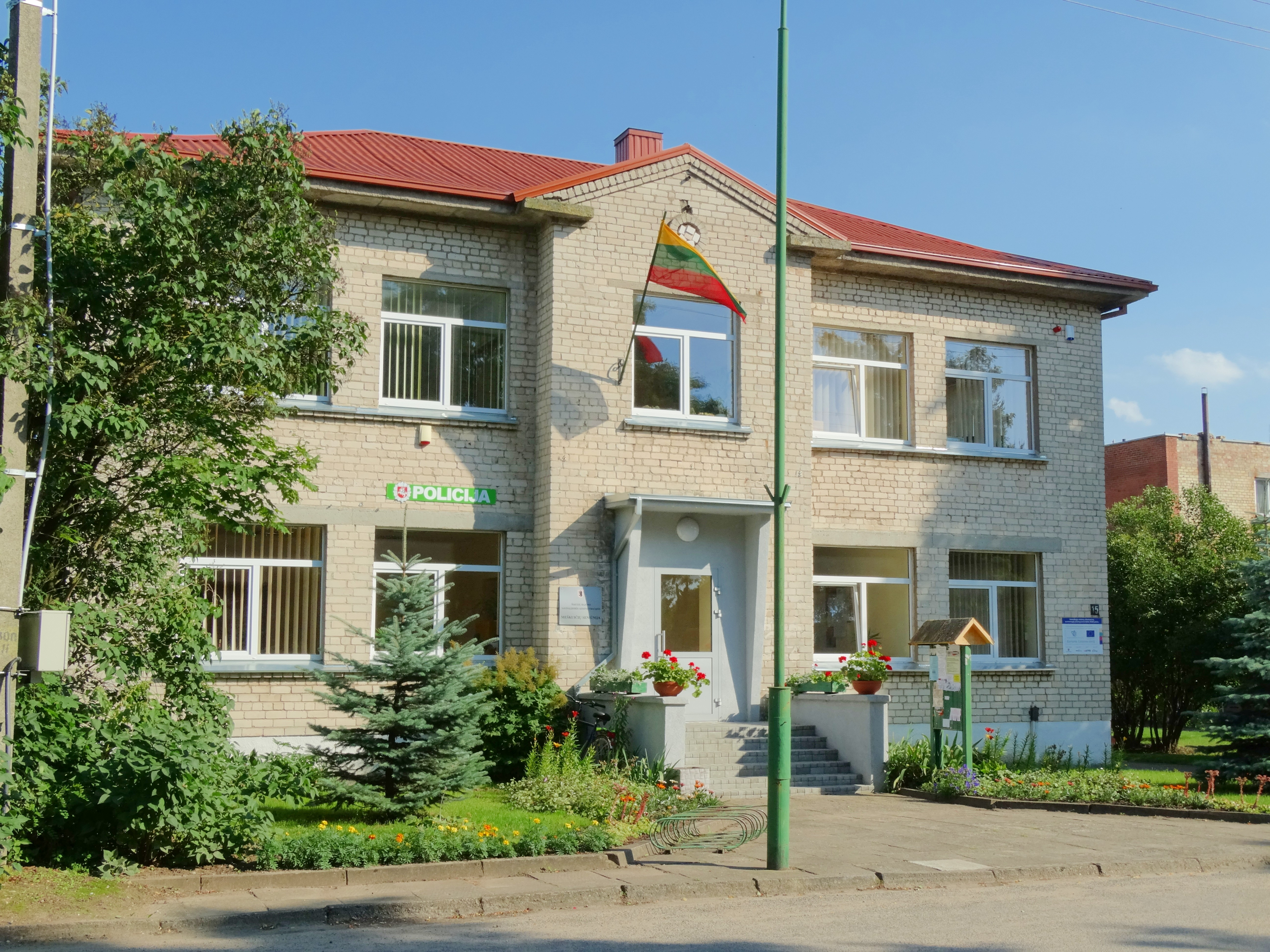 Eldership, Meškuičiai, Šiauliai district, Lithuania